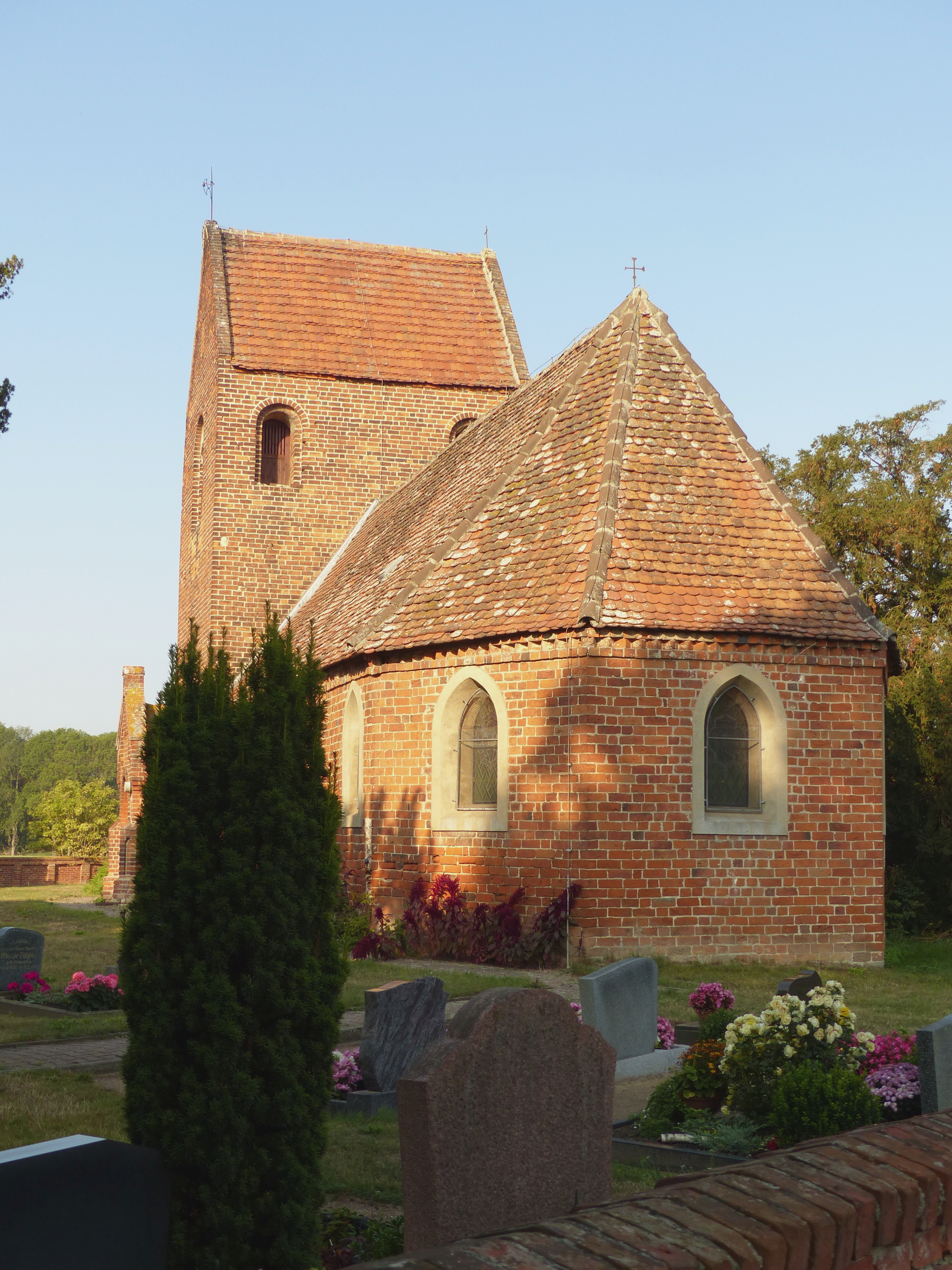 Brick Gothic village church of Wolterslage, municipality of Königsmark, Landkreis Stendal